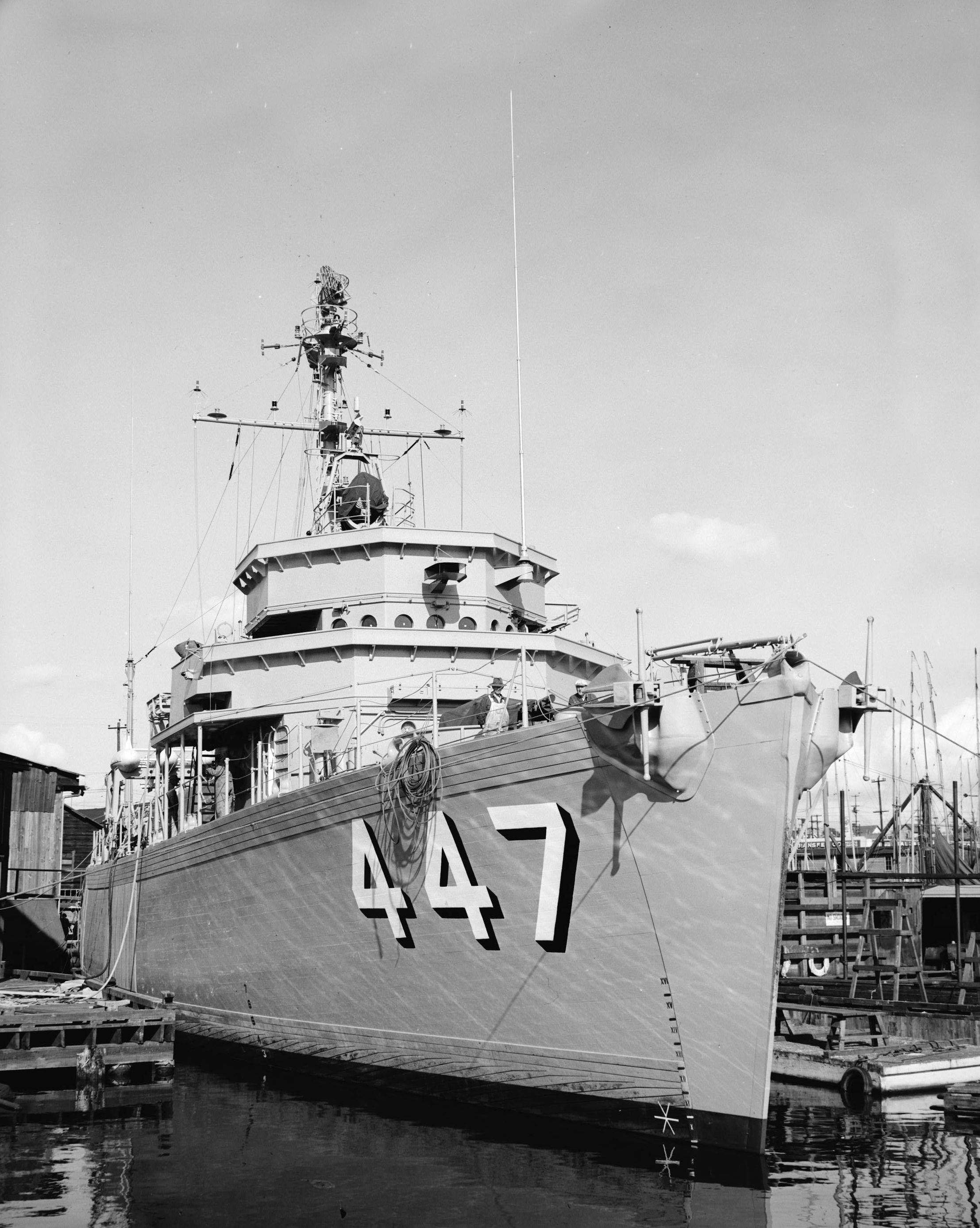 The U.S. Navy minesweeper USS Guide (MSO-447) fitting out at Seattle Shipbuilding and Drydocking Company, Seattle, Washington (USA), in October 1954.